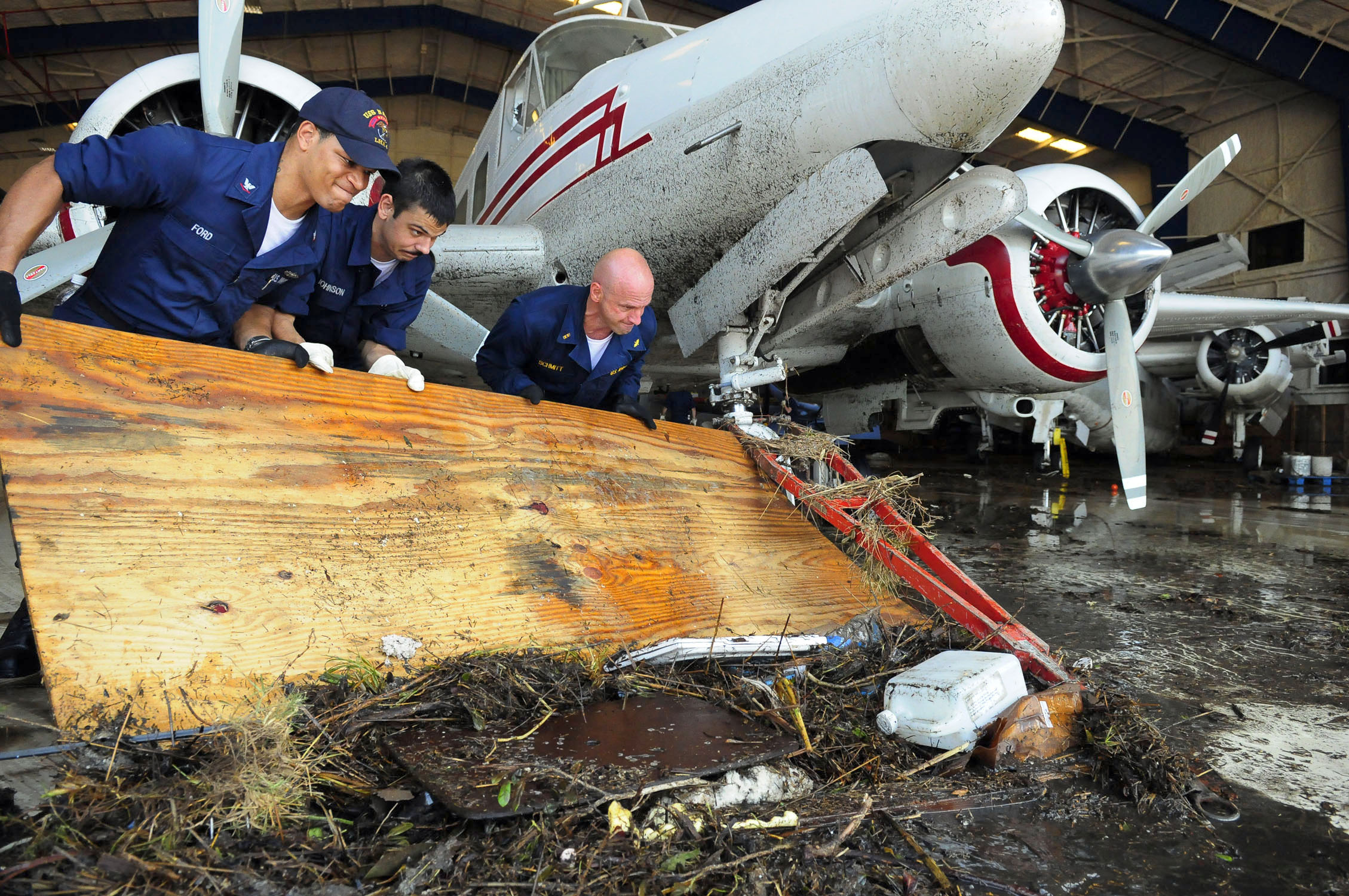 GALVESTON, Texas. Operations Specialist Anthony Ford, left, Seaman Casy Johnson and Chief Warrant Officer Damian Schmitt, all embarked aboard the amphibious assault ship USS Nassau (LHA 4), move sewage waste and debris from the Lone Star Flight Museum in Galveston. The museum floor and antique airplanes were covered in sewage waste left behind from Hurricane Ike. Nassau is anchored off the coast of Galveston to support civil authorities in disaster recovery as directed in the wake of Hurricane Ike.